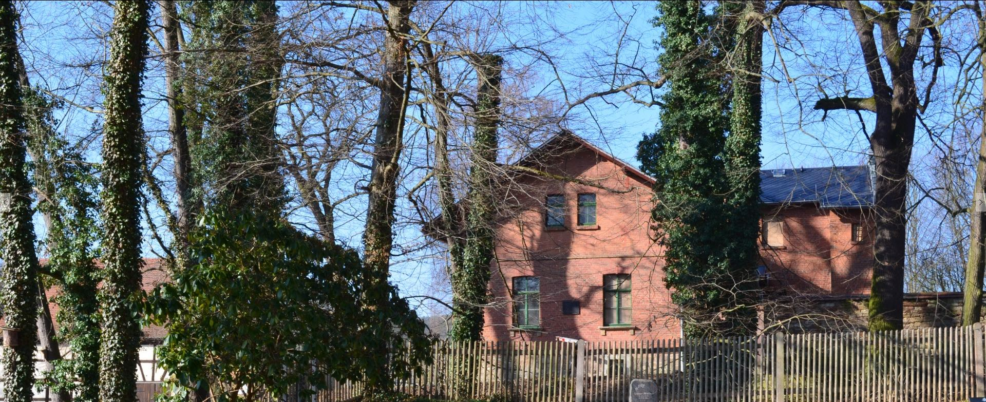 Brehm Memorial Center, Renthendorf (Thuringia).